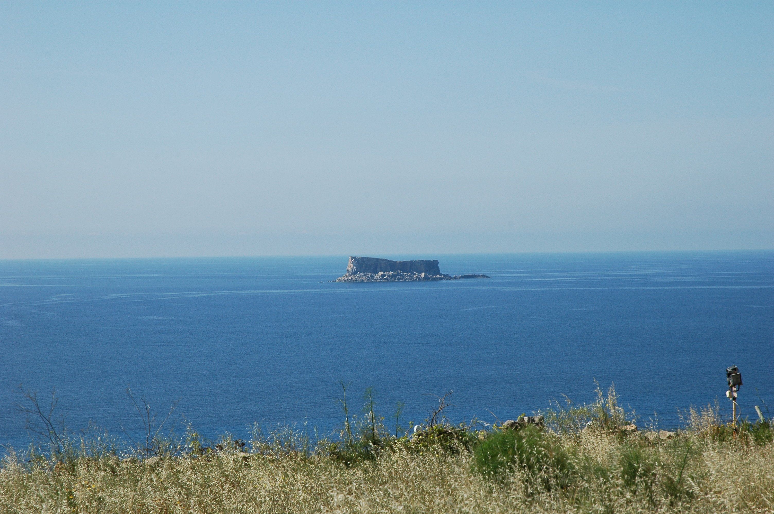 Filfla islet, 5 km south of Malta, seen from Mnajdra